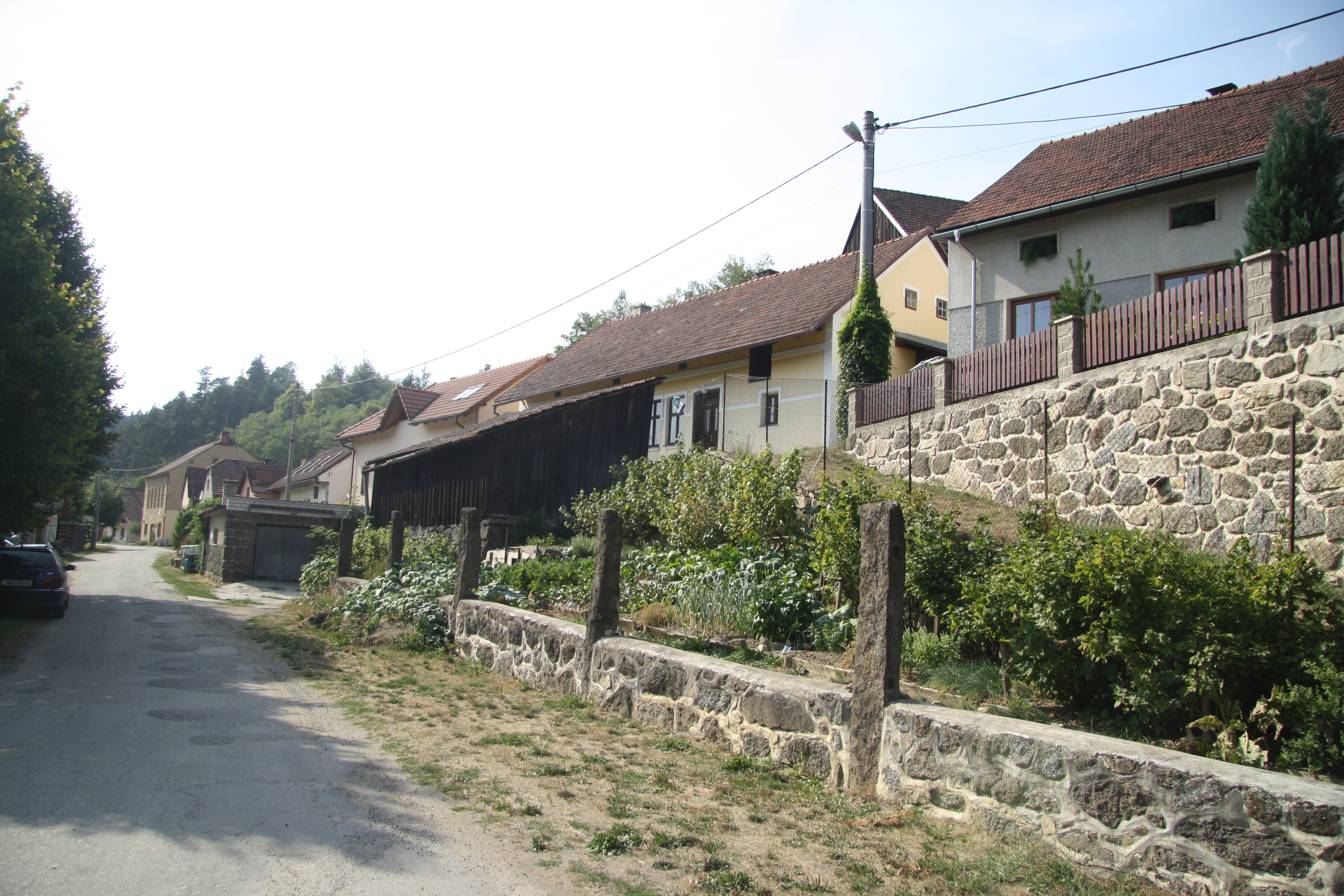 Down part of Baliny, Žďár nad Sázavou District.